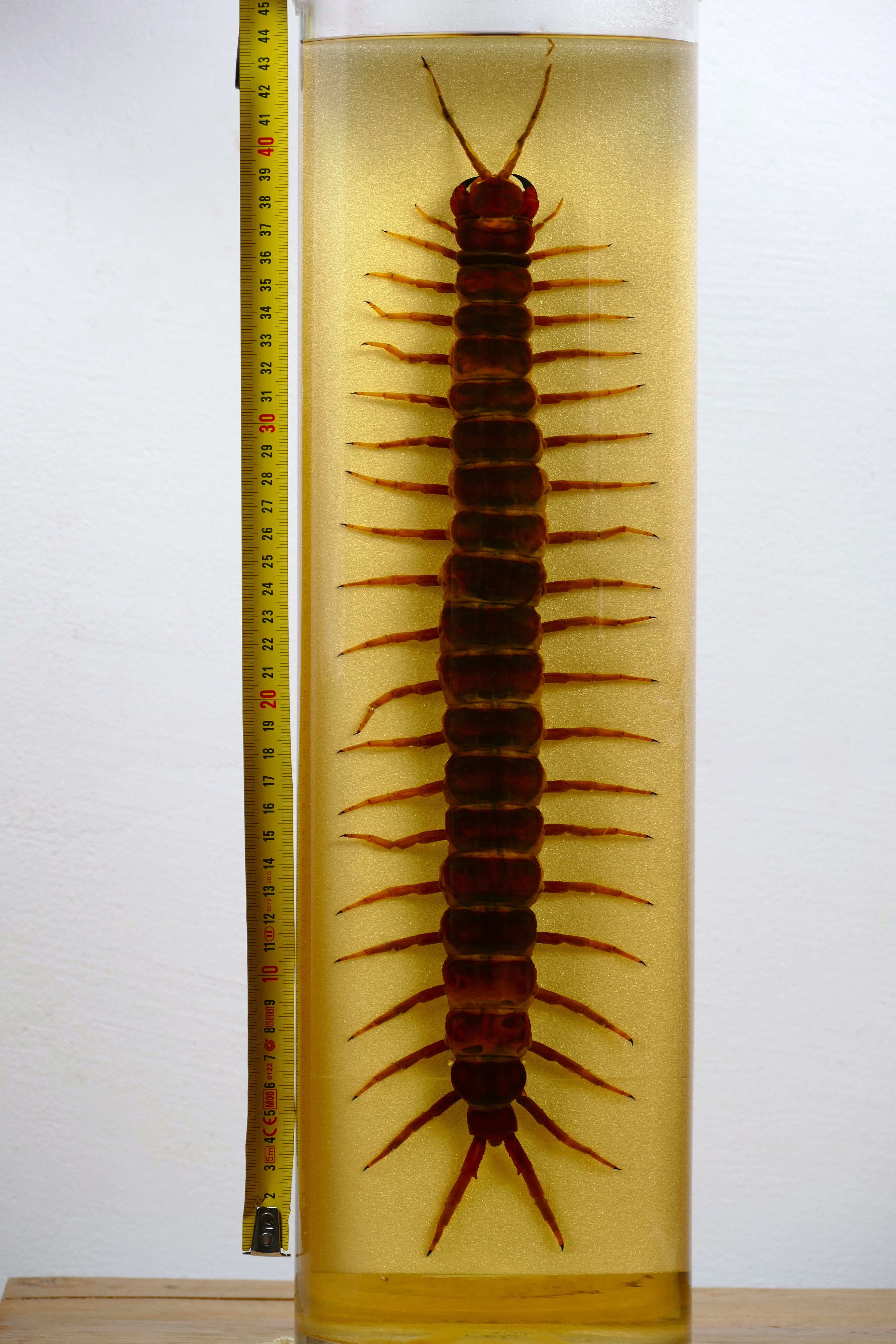 Preserved Specimen